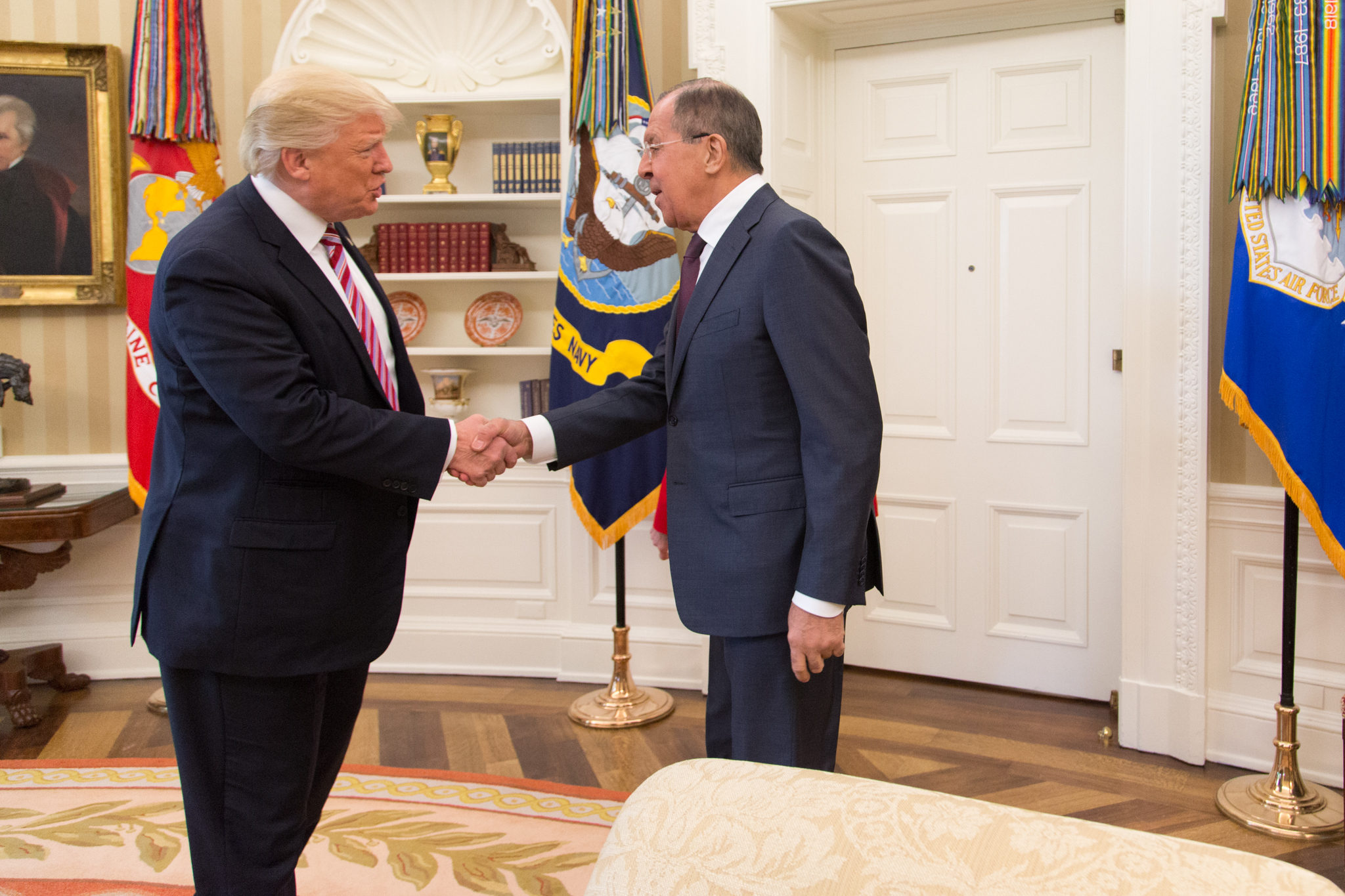 President Donald Trump speaks with Russian Foreign Minister Sergey Lavrov in the Oval Office, Wednesday, May 10, 2017, at the White House in Washington, D.C. (Official White House Photo by Shealah Craighead)